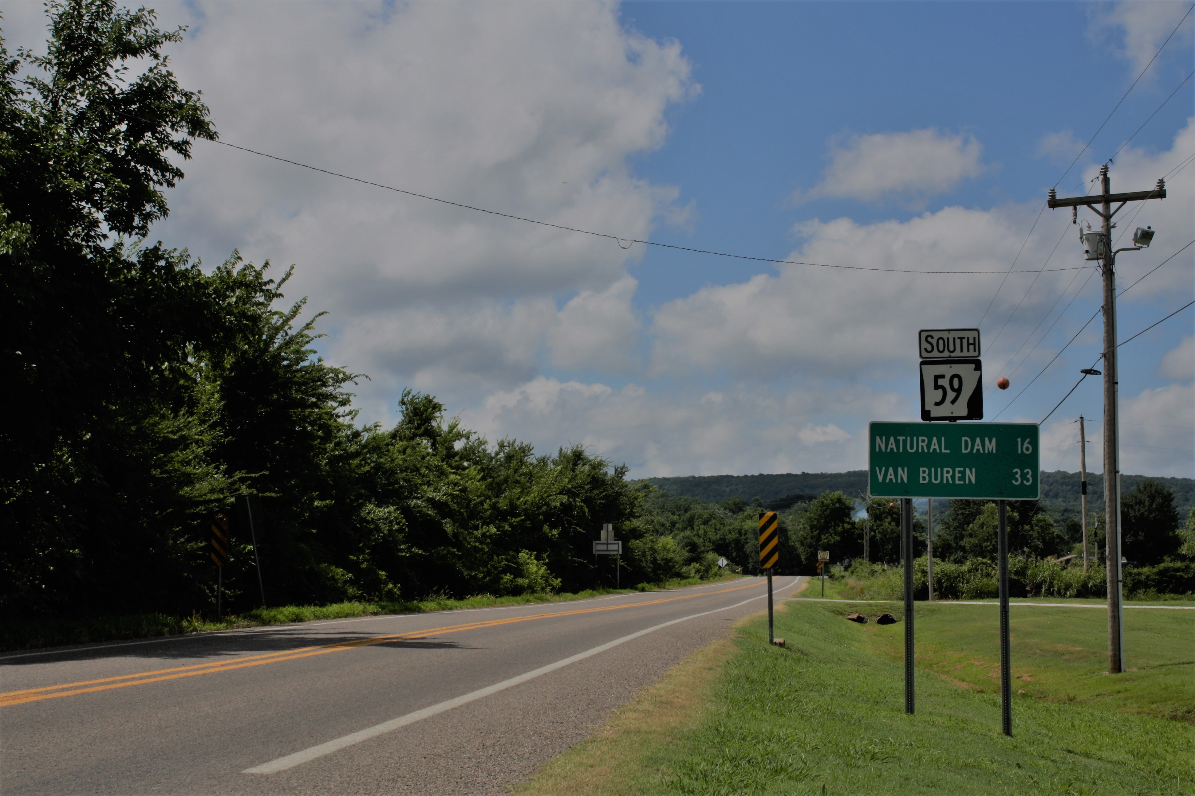 Highway 59 south of the Highway 156 junction in Evansville, Arkansas